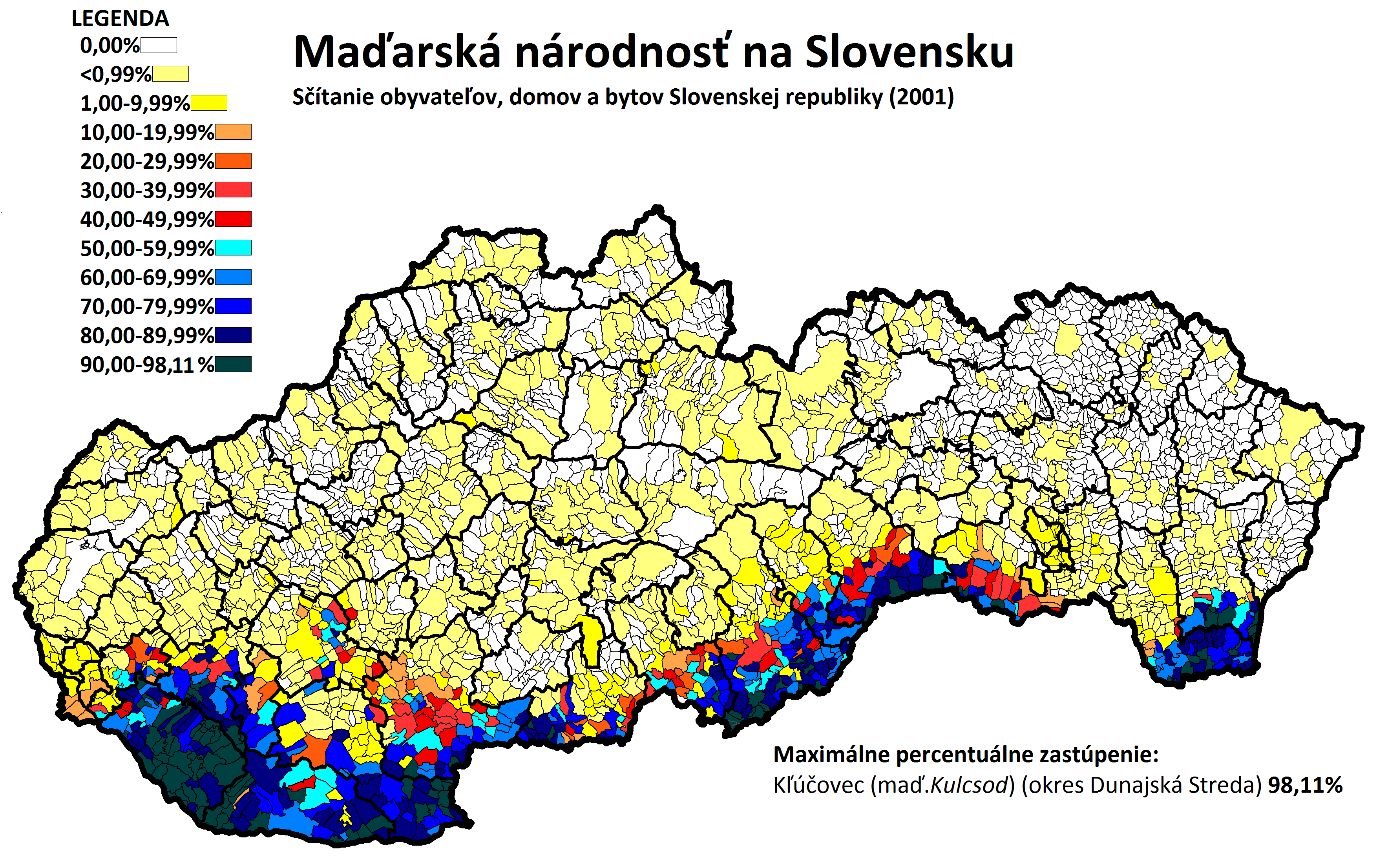 Magyars in municipalities of Slovak republic in 2001.